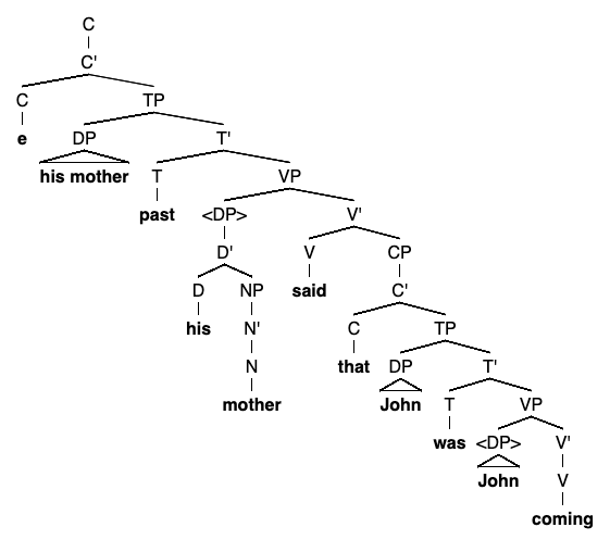 Tree illustrating Binding and c-command- sentence 2